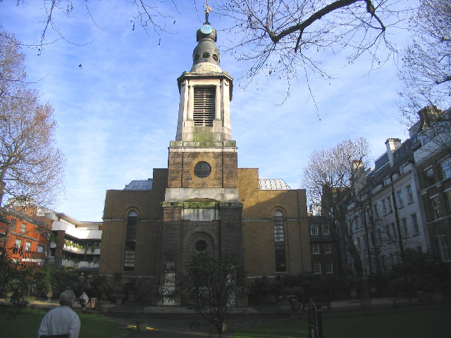 Church of St. Ann, Soho. Designed by Sir Christopher Wren and William Talman and completed in 1685.